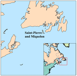 This is a locator map of Saint-Pierre and Miquelon that I made using the Digital Chart of the World.